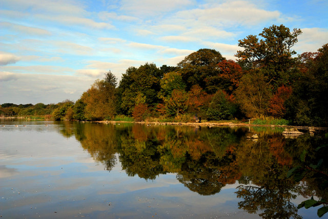 Lakeside Hatfield Forest